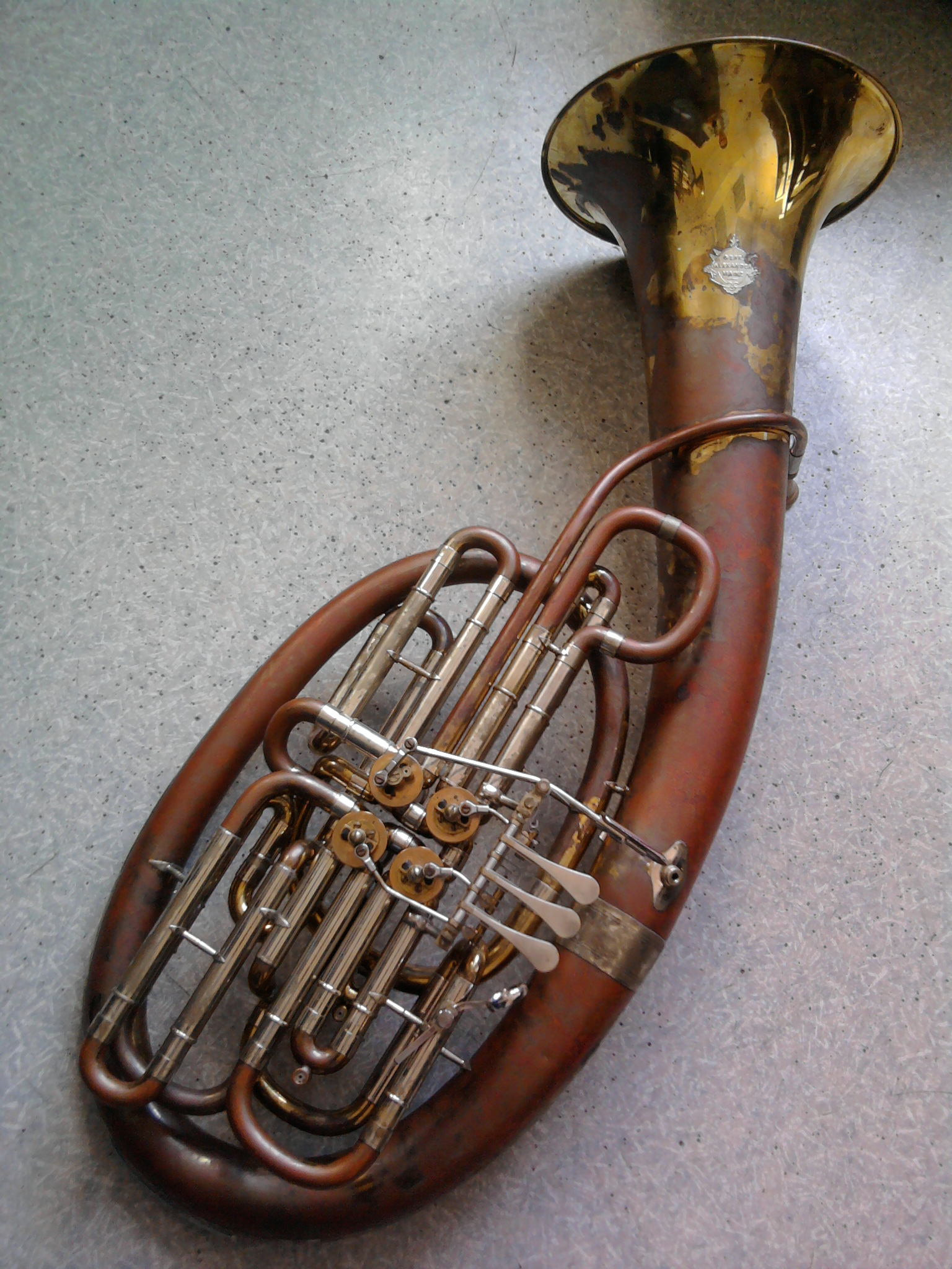 A model 110 double Wagner tuba in F/Bb, built by Gebr. Alexander Mainz. Rhein. Musikinstrumentenfabrik GmbH (Mainz, Germany).